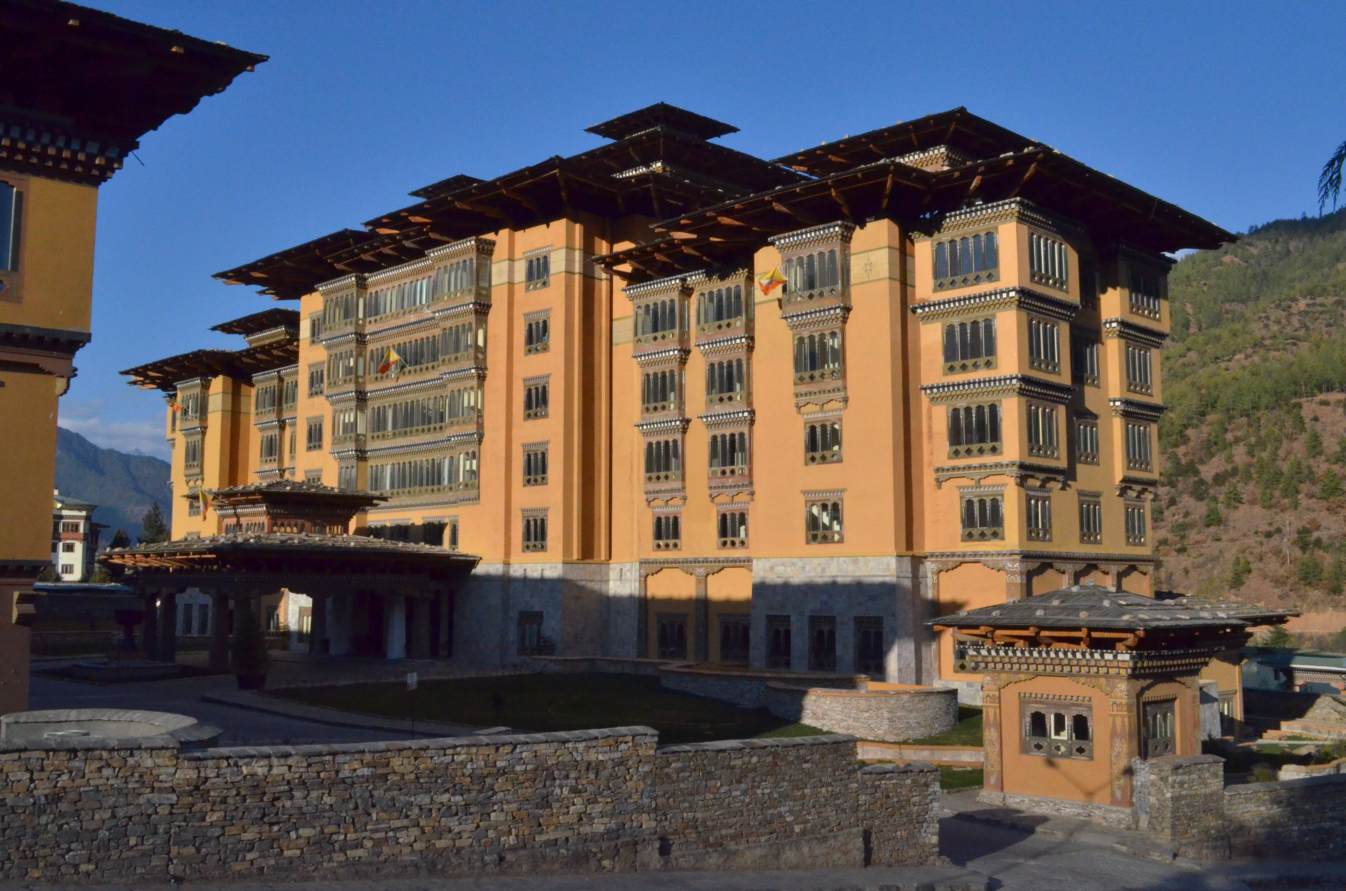 Hotel Taj Tashi, Thimphu, Bhutan (December 2010)